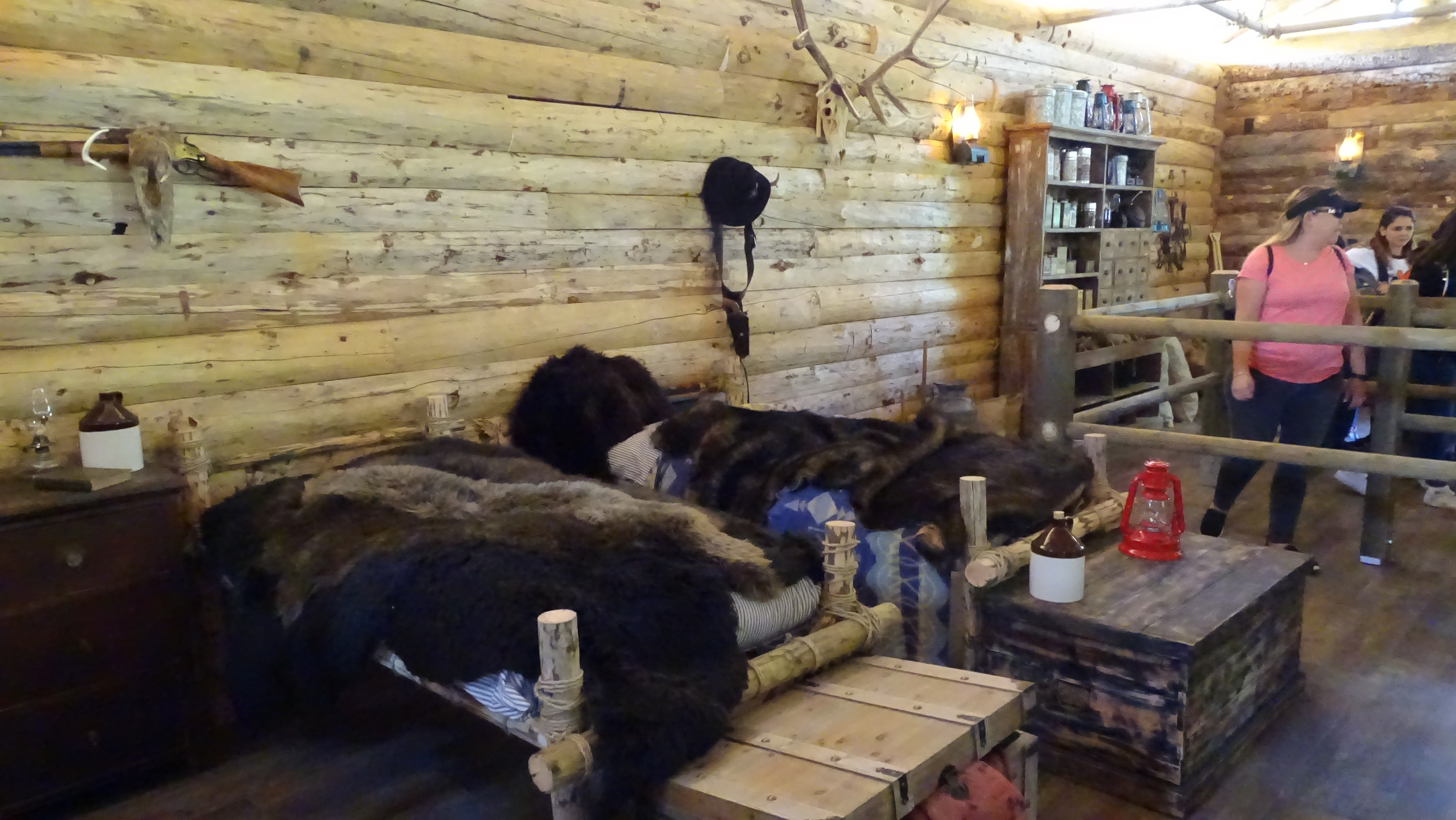 Calico River Rapids features an indoor homestead section as part of the themed queue.